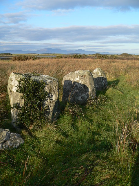 Killadangan salt marsh.